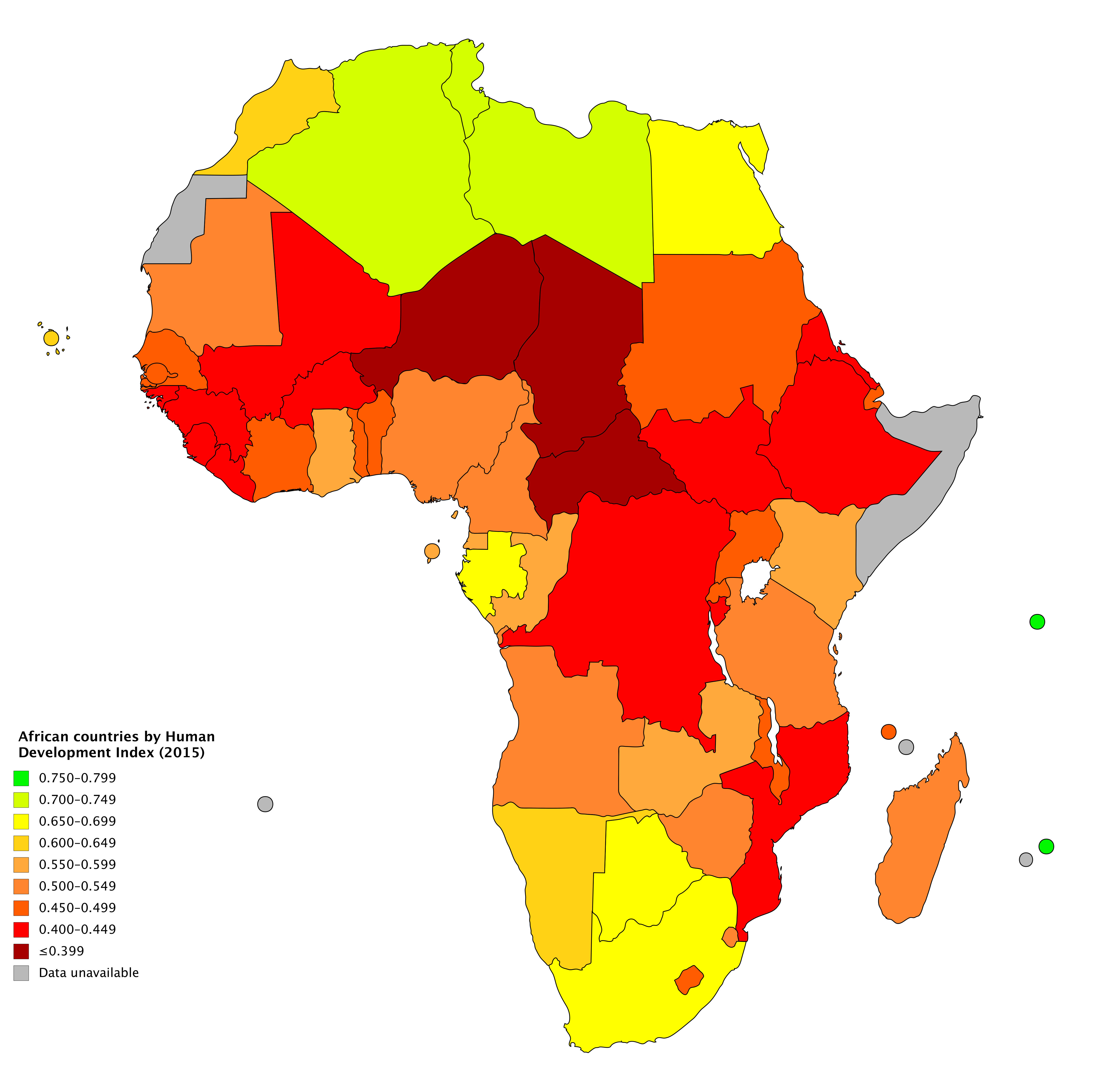 A colour-coded map of Africa showing the Human Development Index (HDI) of its countries in 2015, based on data from the United Nations Development Programme.